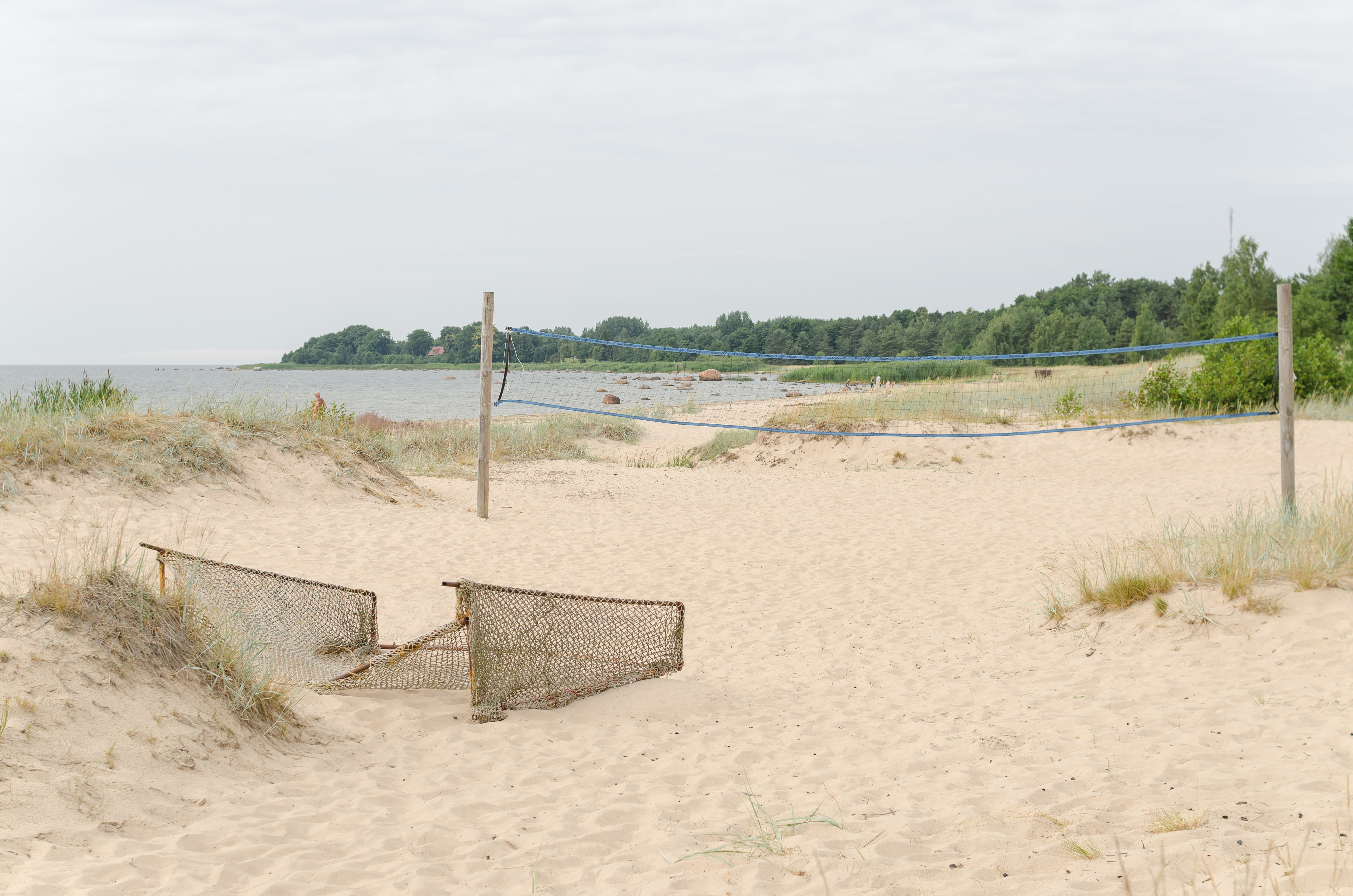 Kolga-Aabla beach, Juminada Peninsula, Lahemaa National Park, Estonia